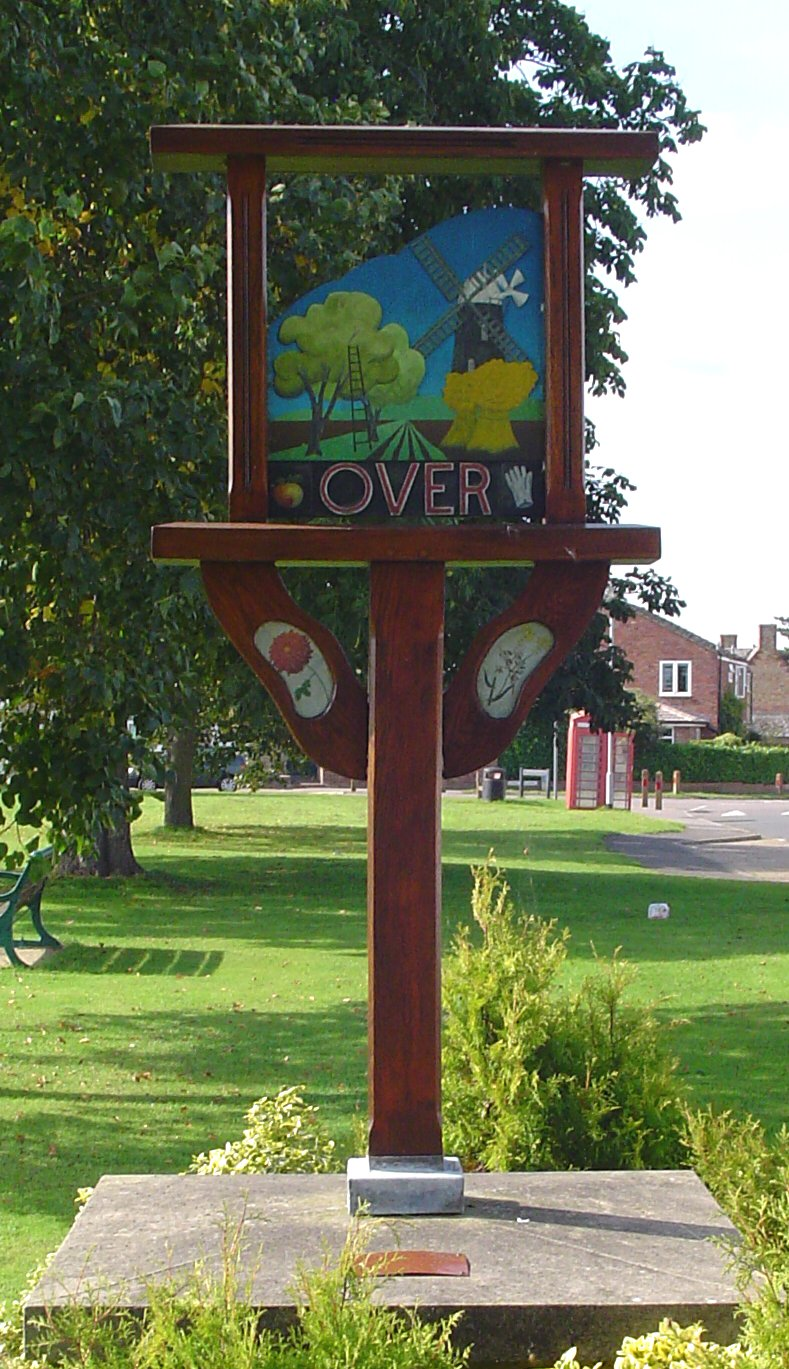 Signpost in Over, Cambridgeshire made by Fred Cave